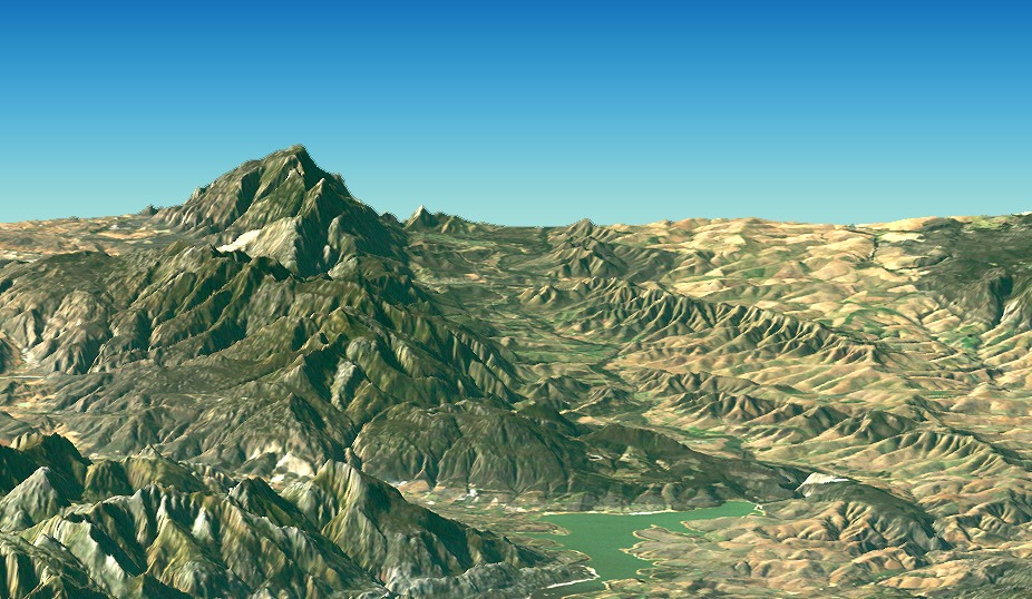 A satellite image of the Riviersonderend Mountains and adjacent Overberg in South Africa which was taken in February 2000 by Nasa's Landsat. The perspective is computer generated, combining a photograph with elevation data collected using radar. This Landsat and SRTM perspective view uses a 2-times vertical exaggeration to enhance topographic expression. The back edges of the data sets form a false horizon and a false sky was added. Colors of the scene were enhanced by image processing but are the natural color band combination from the Landsat satellite.